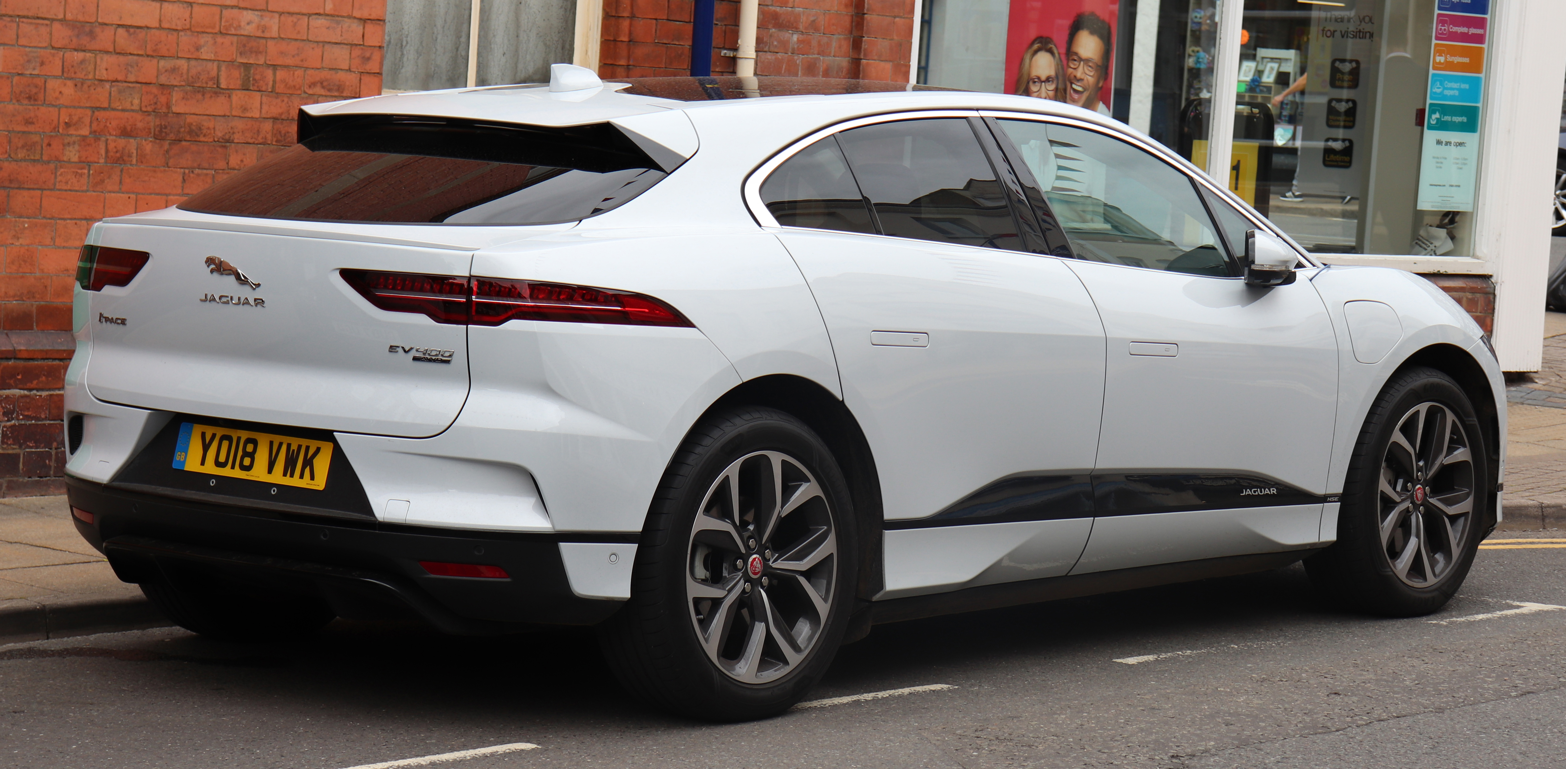 2018 Jaguar I-Pace EV400 AWD Rear Taken in Warwick